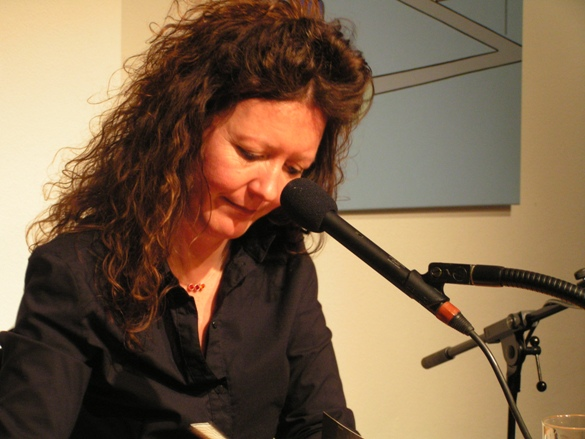 German writer (novels, short stories) Gisa Klönne, 2008